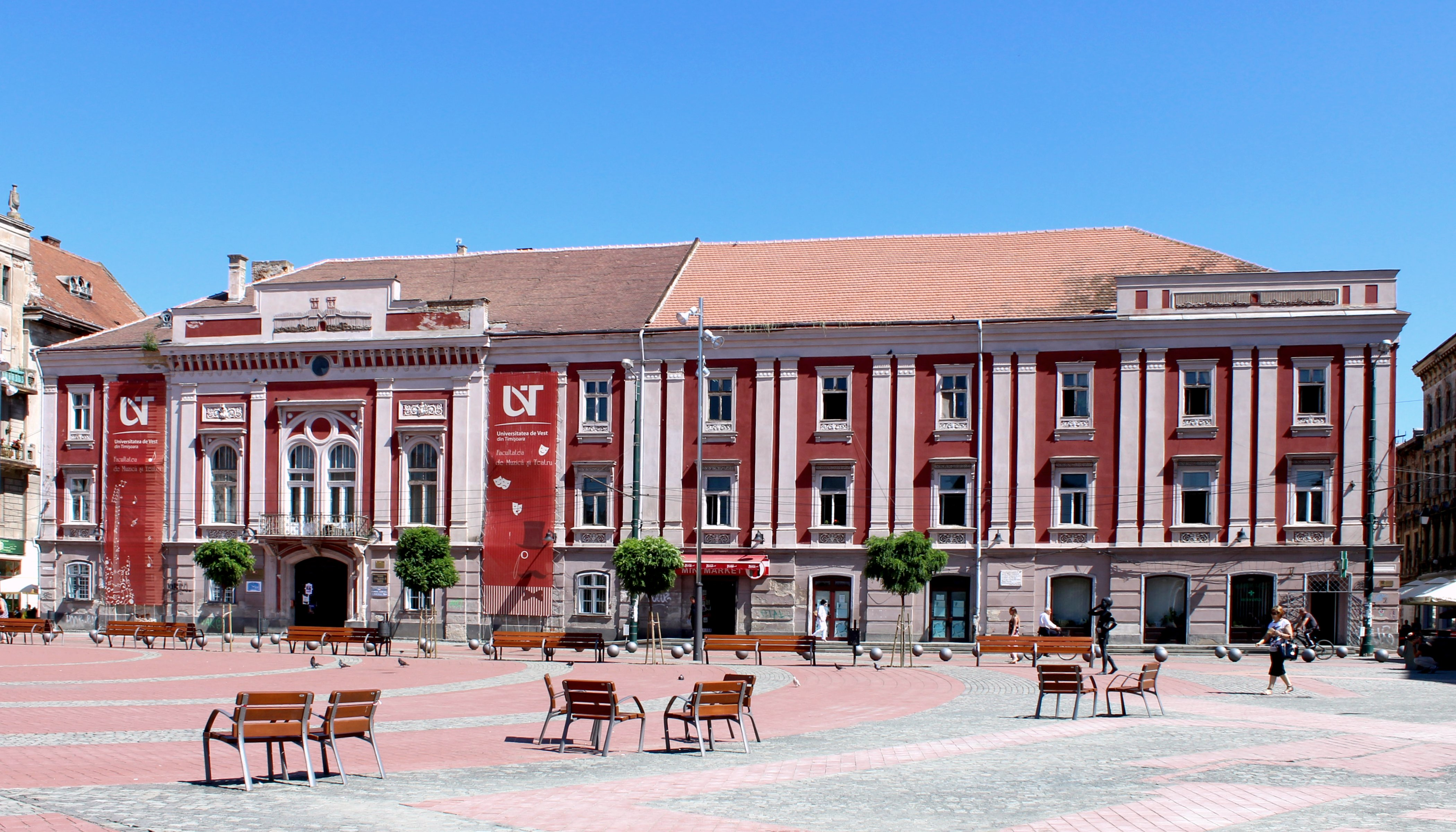 Old City Hall, Timisoara, Romania